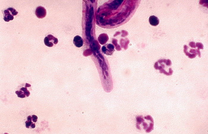 Brugia malayi, the causal agent of Filariasis. Brugia malayi, agent of filariasis. Anterior end. Parasite.